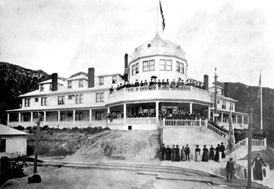 The Echo Mountain House rail station and lodge of the Mount Lowe Railway was atop Echo Mountain above Altadena in Los Angeles County, California. The 80-room Victorian style "Echo Mountain House" was completed in 1894 as a luxury facility to rival the Hotel Del Coronado in San Diego.